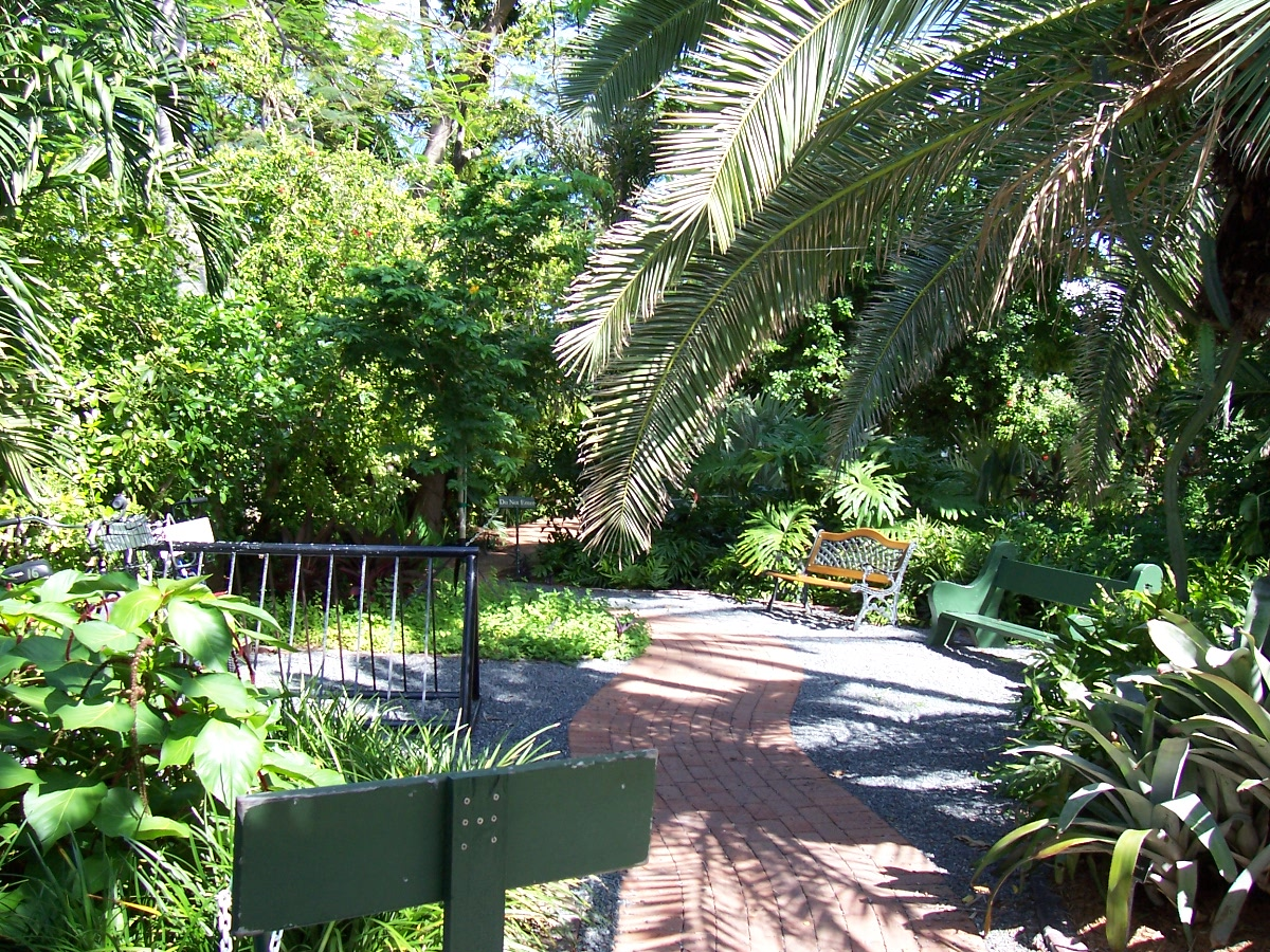 Picture of the courtyard of the Ernest Hemingway House taken by me, Wknight94, on August 10, en:2006.